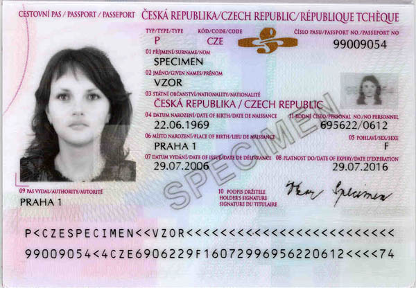 Date page of Czech passport in 2006.